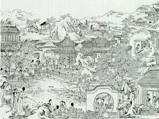 Grand View Garden, Jinyuyuan, Shanghai, Tonwen, 1889.